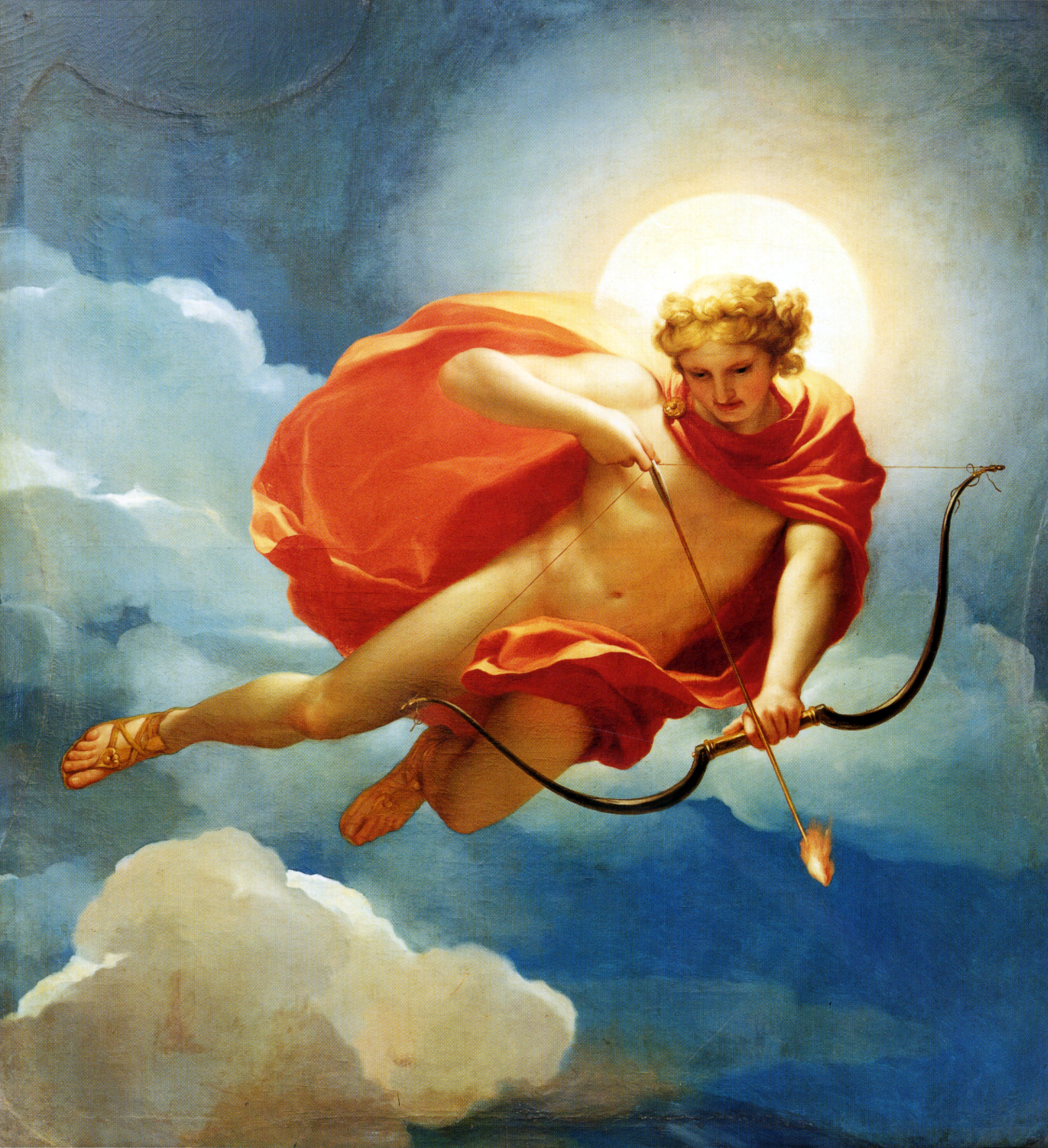 One of an ensemble of four paintings with personifications of the times of day intended as supraportas for the boudoir of Maria Luisa of Parma, Princess of Asturia.